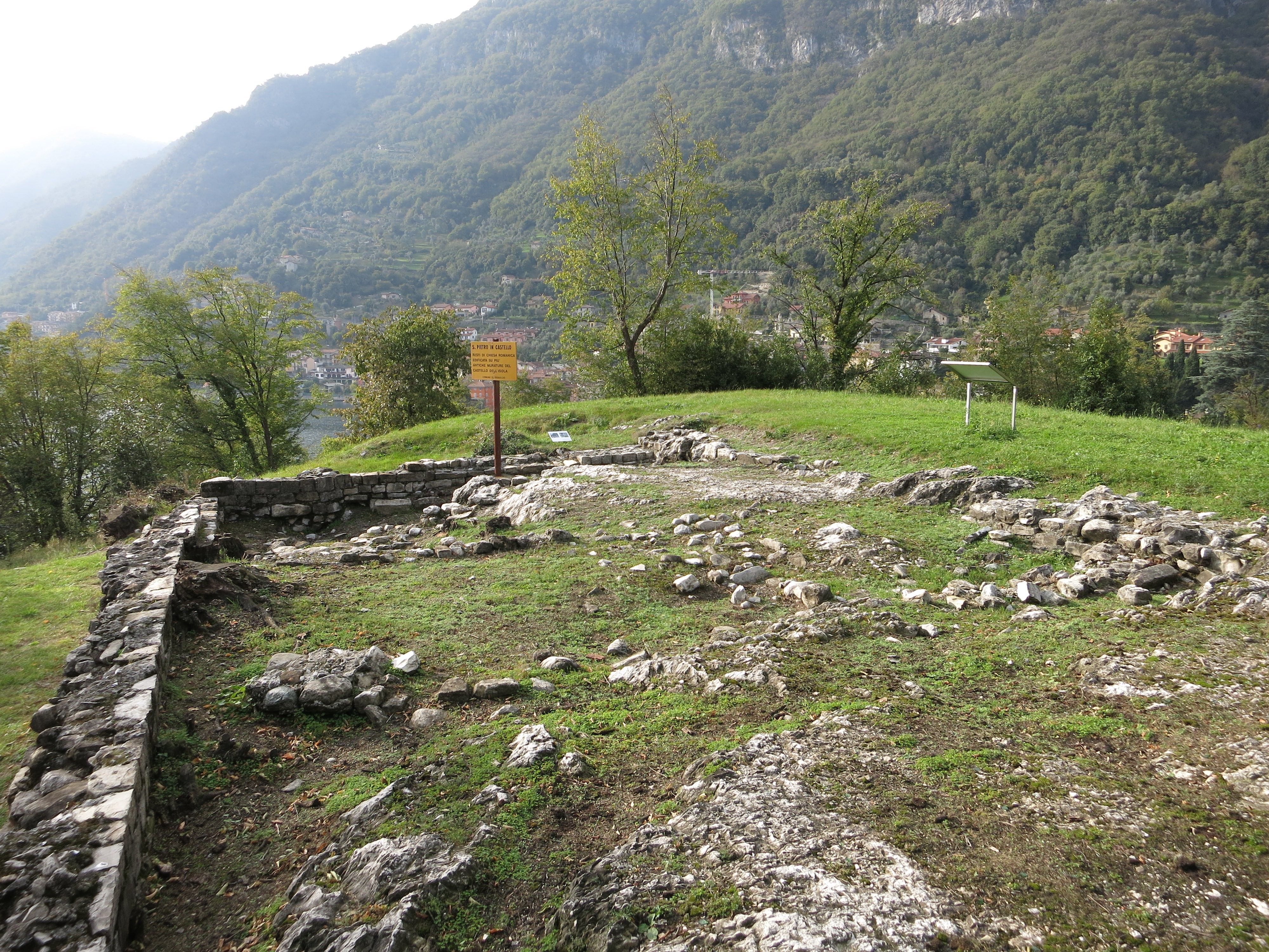 On the highest point of Isola Comacina, Italy